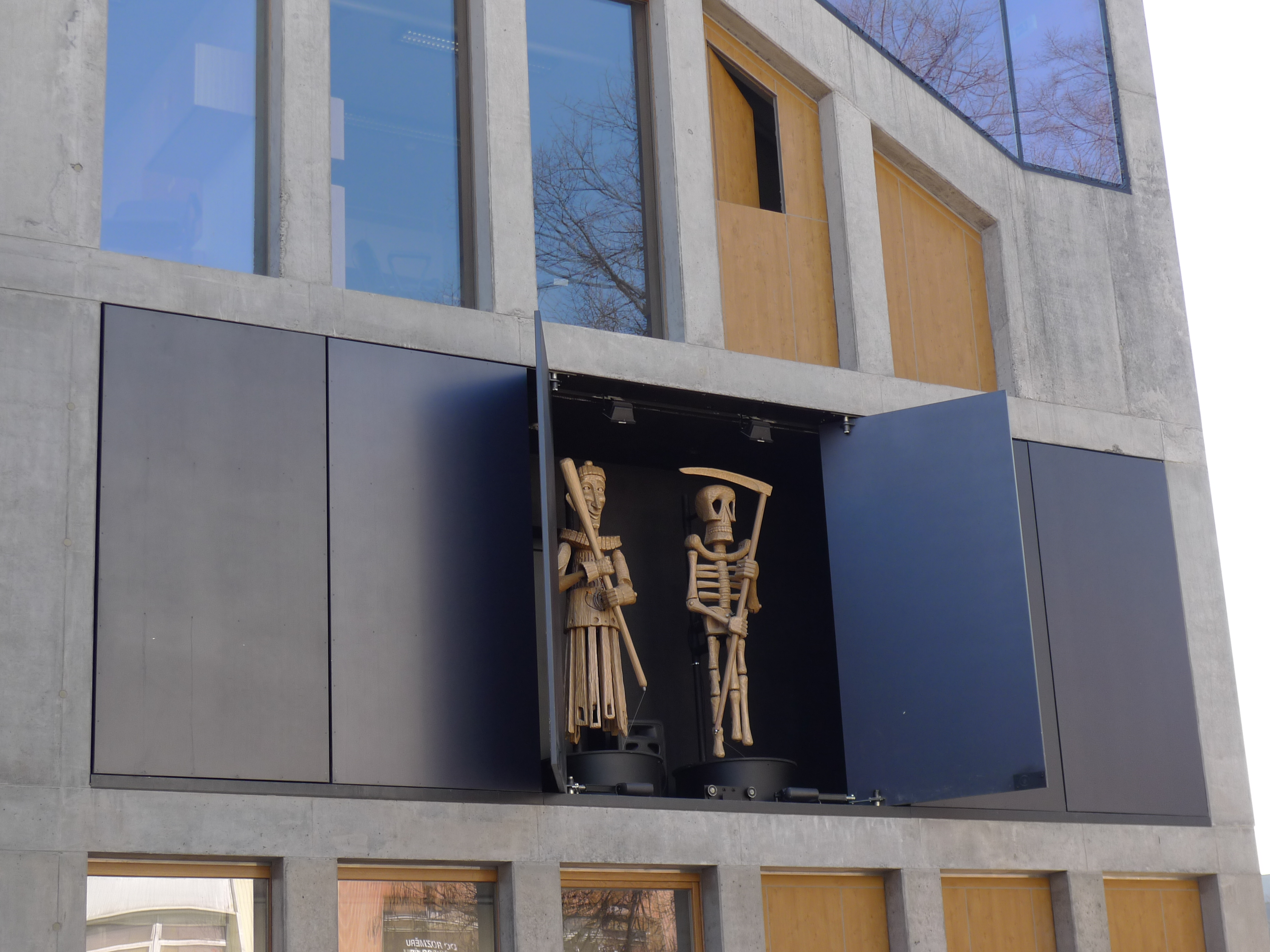 Astronomical clock in Ostrava